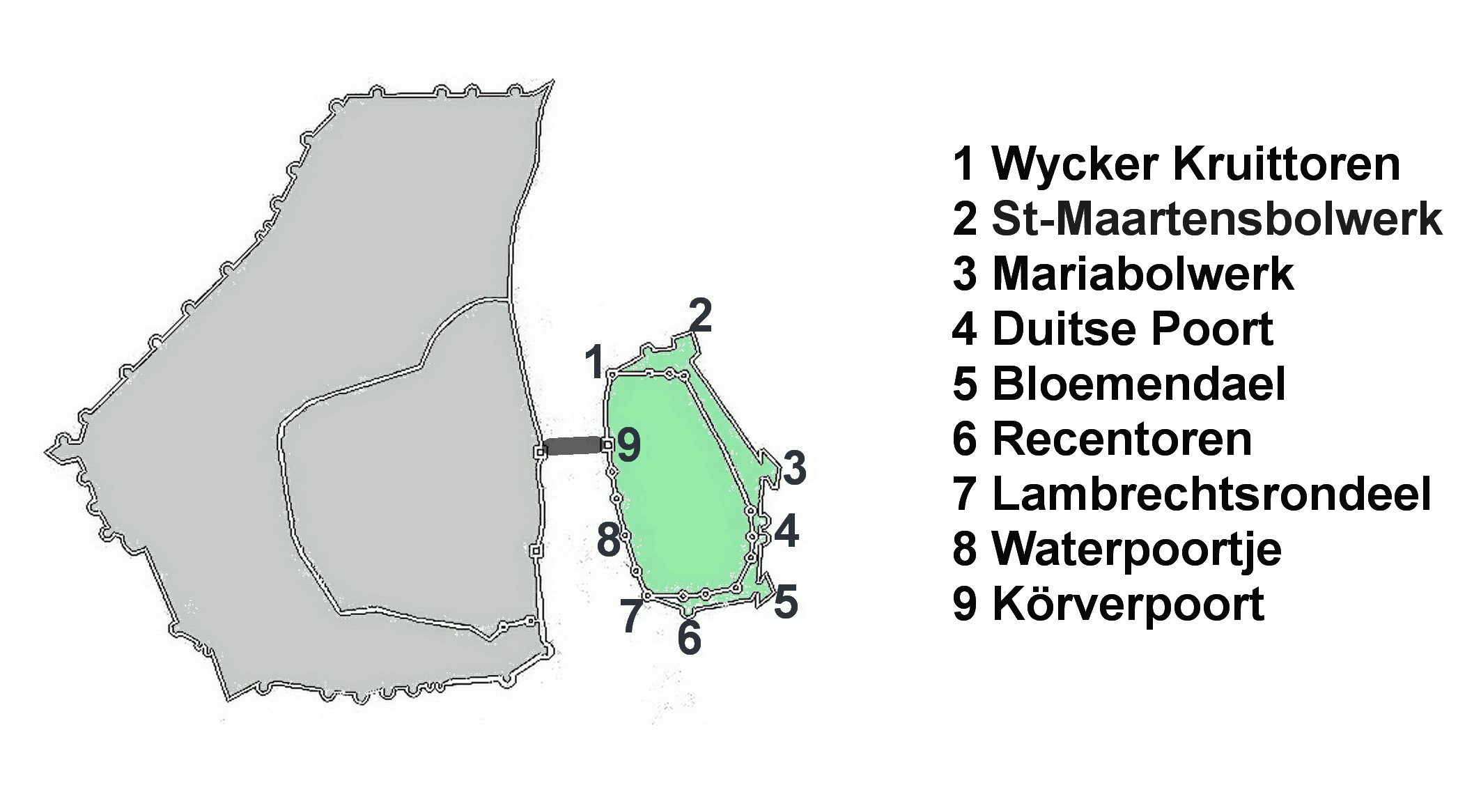 Stylized map of the medieval city of Maastricht, the Netherlands, showing the two medieval city walls (ca 1230 and ca 1375. The bridge accross the river Meuse connects the two parts of the city. The names of gates, towers and bullwarks on the right bank ("Wyck") are given.